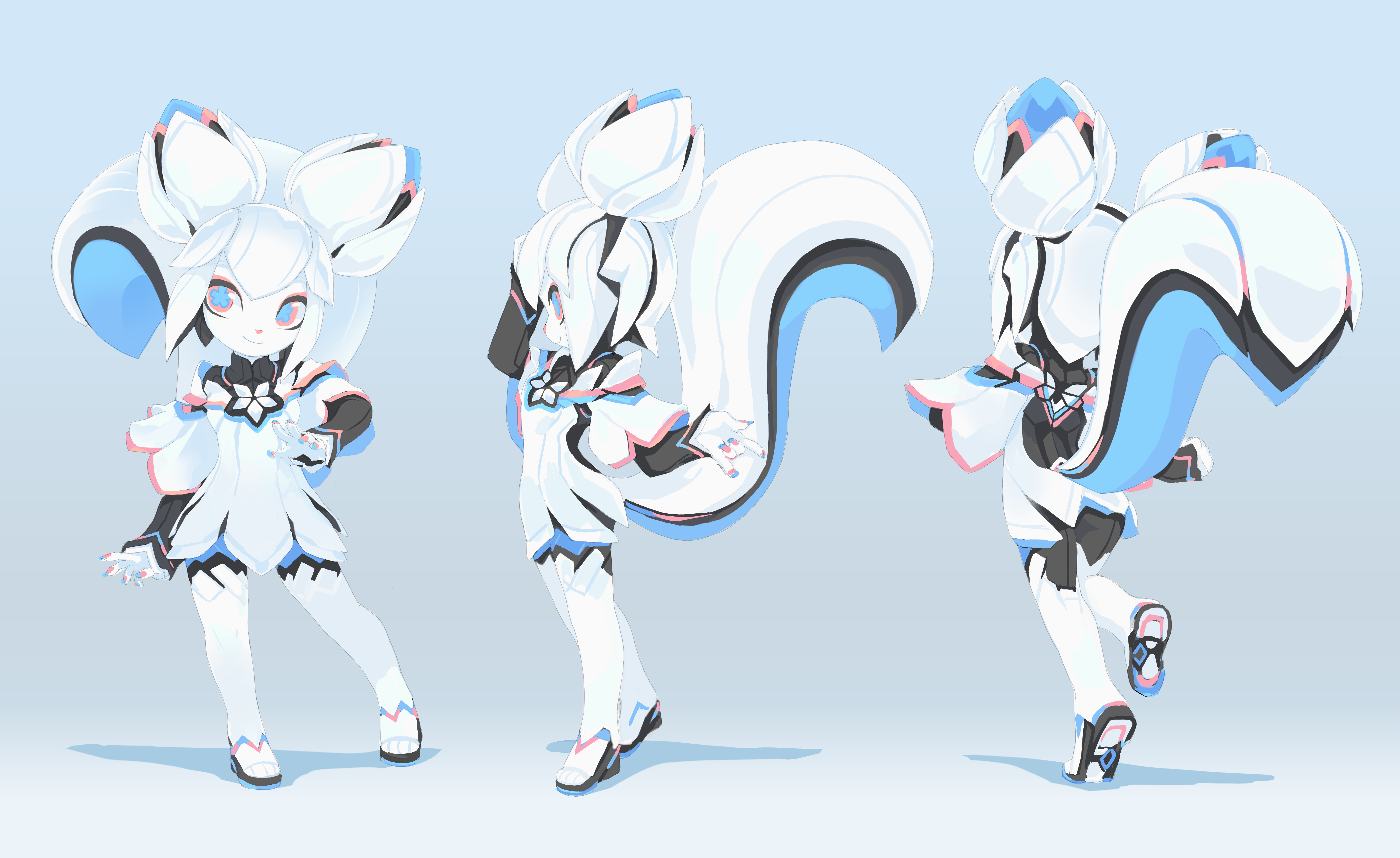 Kiki the Cyber Squirrel, design sheet for her plastic model kit.